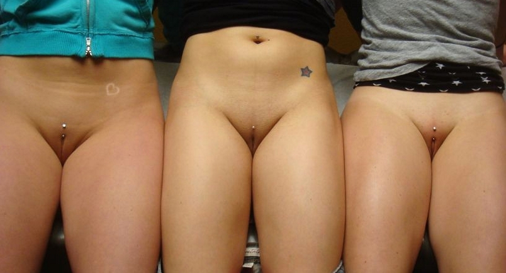 Girls with Christina (left and right) and Nefertiti (center) piercing